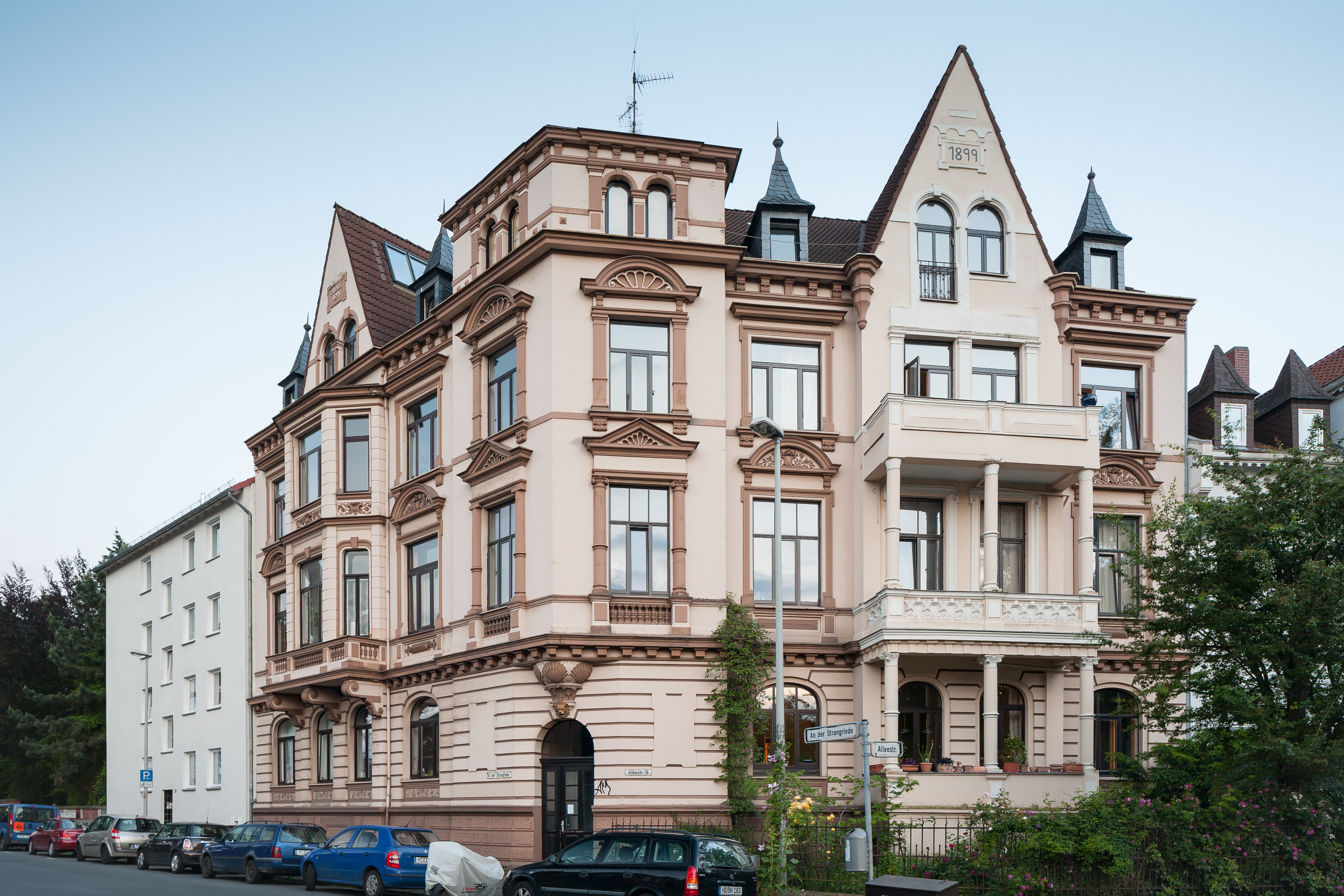 Apartment building located at An der Strangriede and Alleestrasse in Nordstadt district of Hanover, Germany.